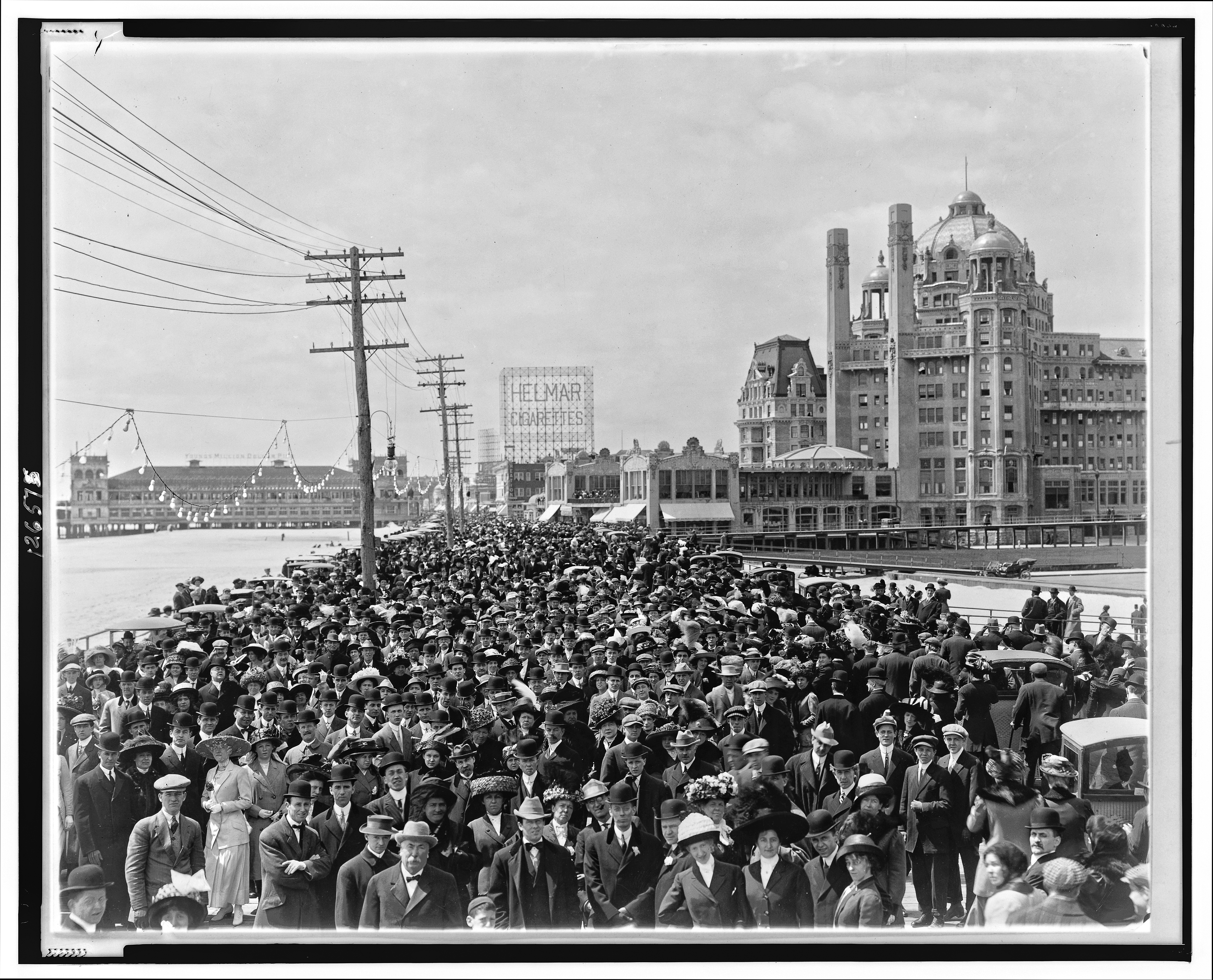 retouch